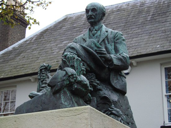 Thomas Hardy Square